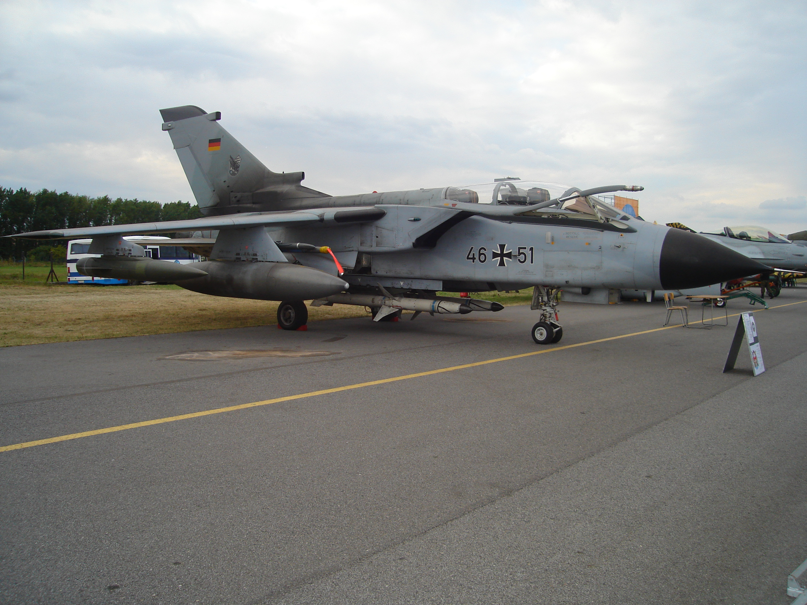 Picture of Panavia Tornado IDS, Radom Air Show 2007